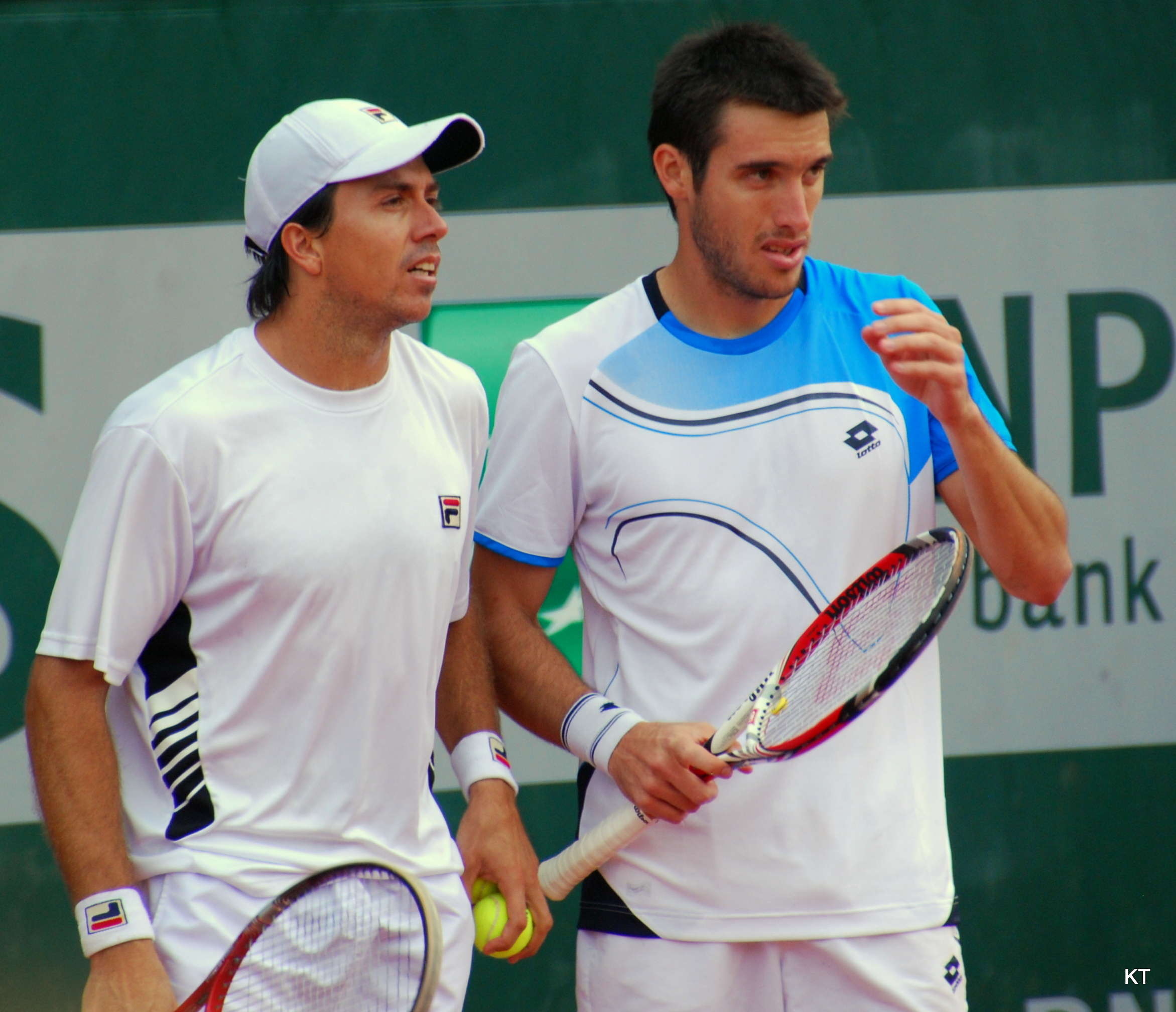 Charly Berlocq & Leonardo Mayer